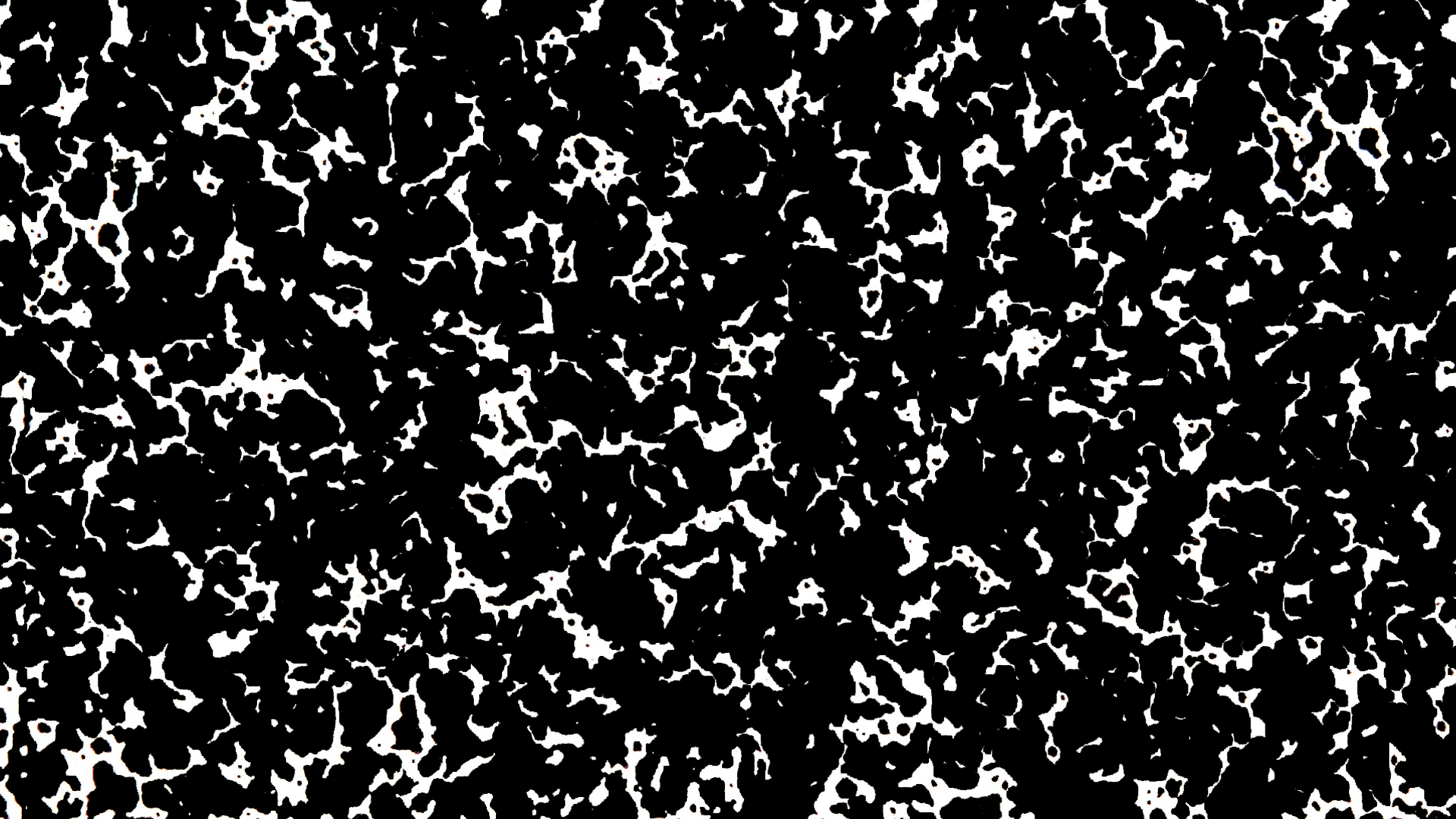 d